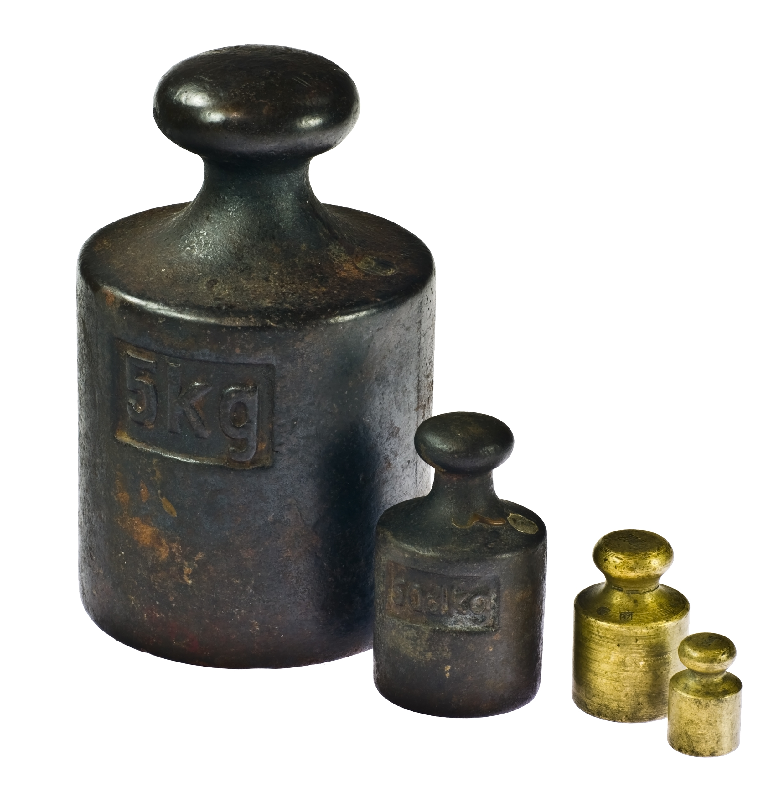 Masses